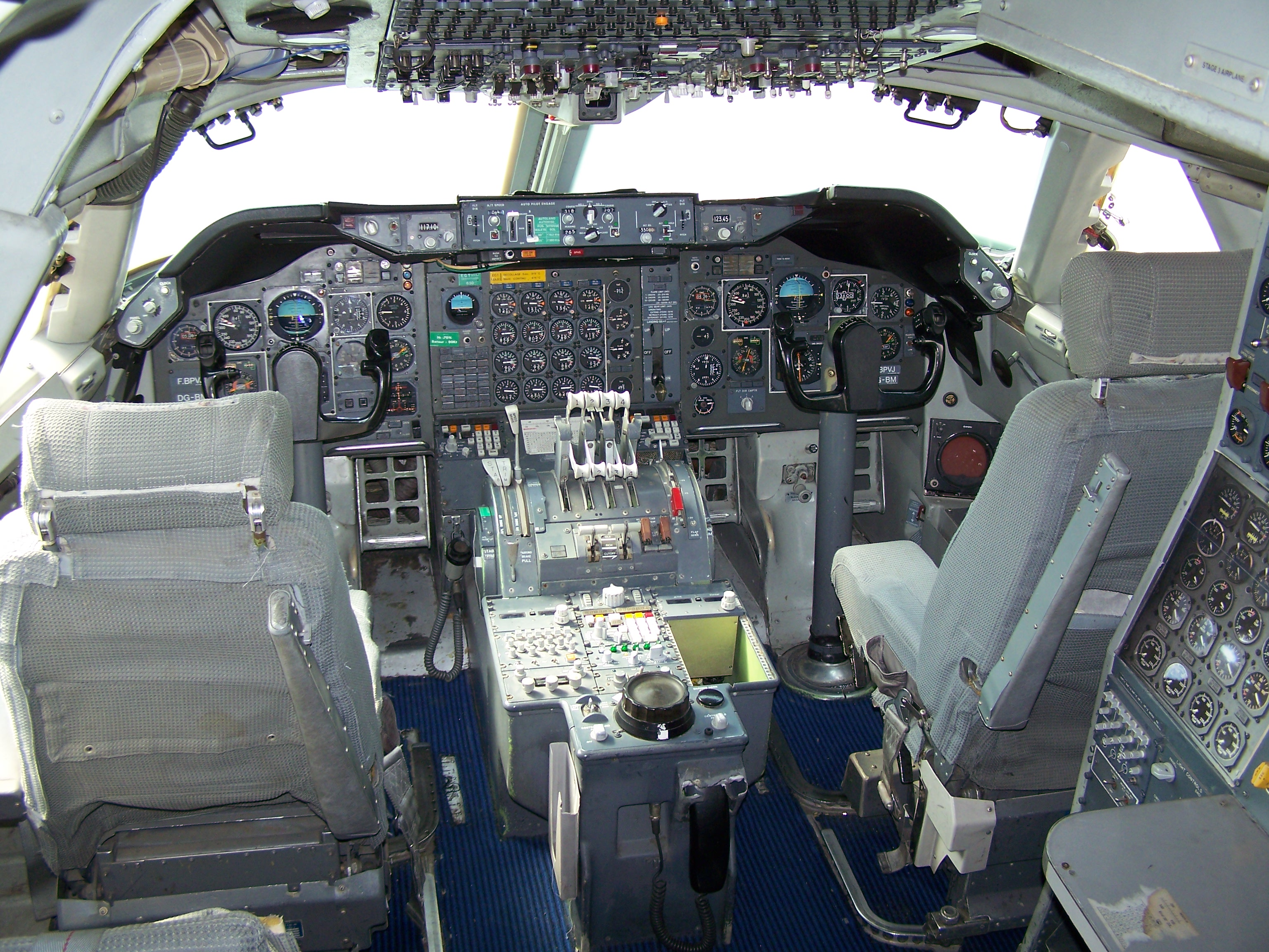 Cockpit of a Boeing 747 at the Musée de l'air et de l'espace at Bourget airport.